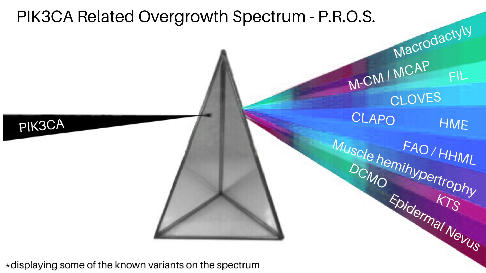 A picture made to illustrate the PIK3CA Related Overgrowth Spectrum and all the different conditions this encompasses.